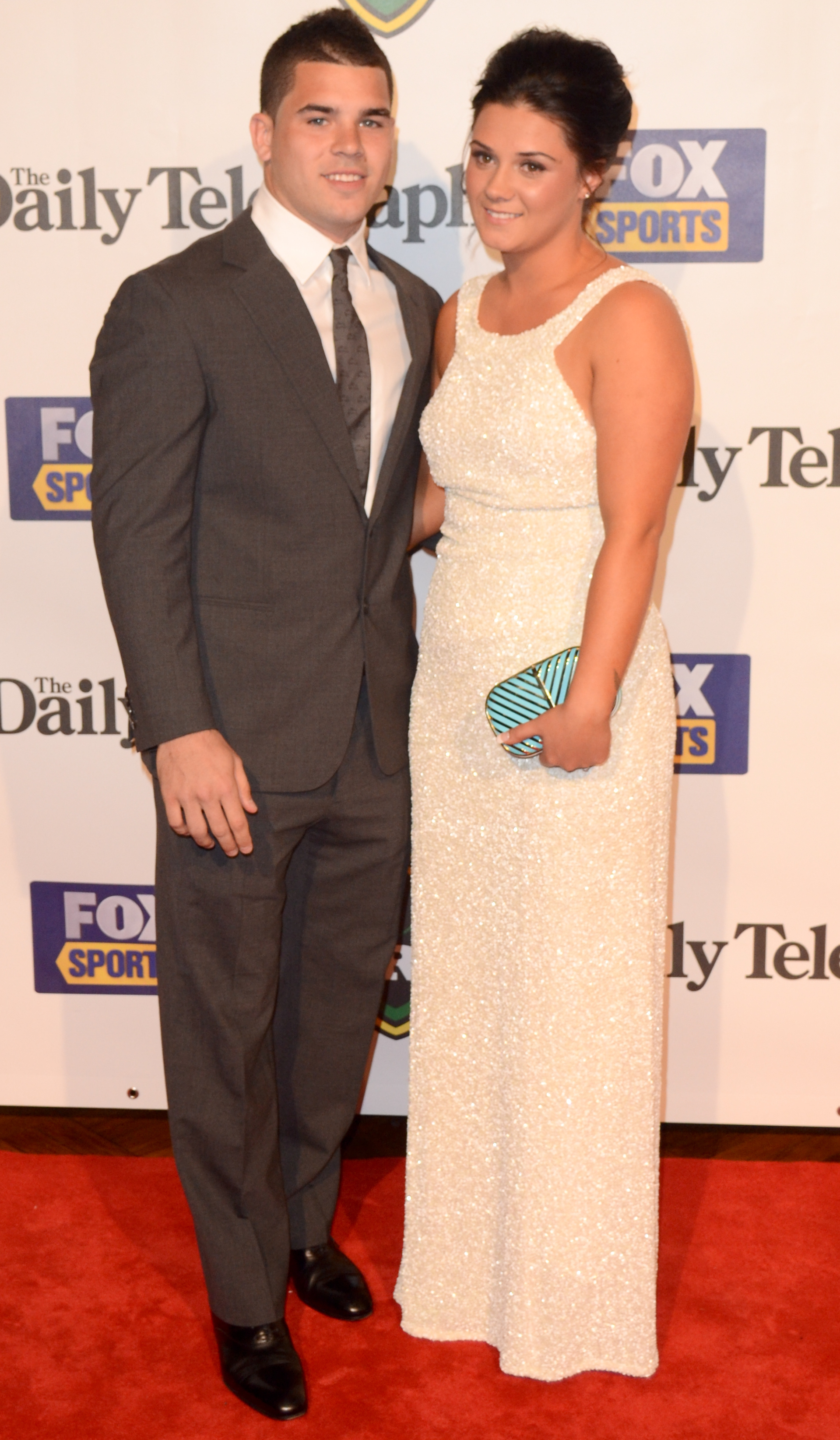 Adam Reynolds & financé Tallara Simon-Phillips at the 2012 NRL Dally M Awards.